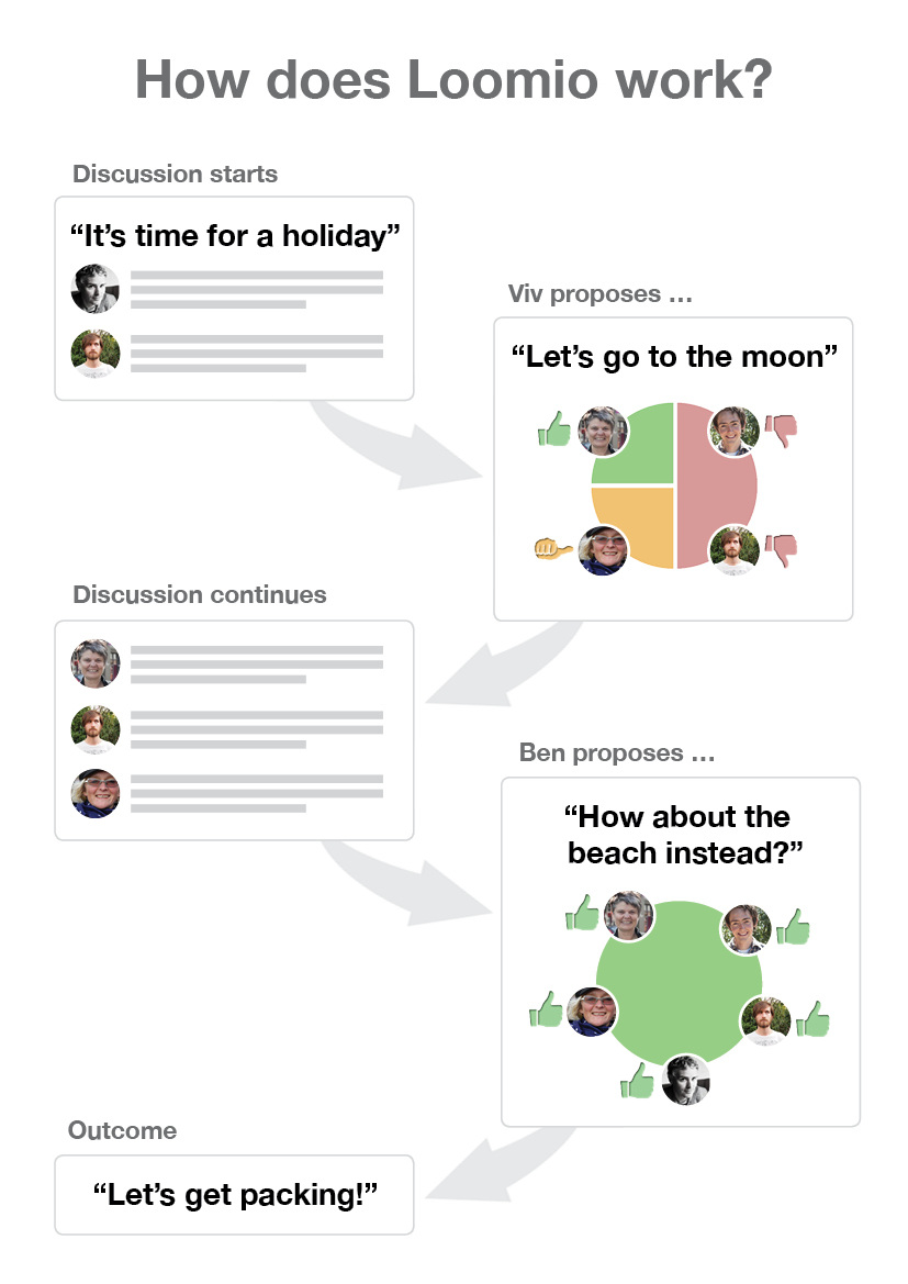 this photo shows how Loomio is working.